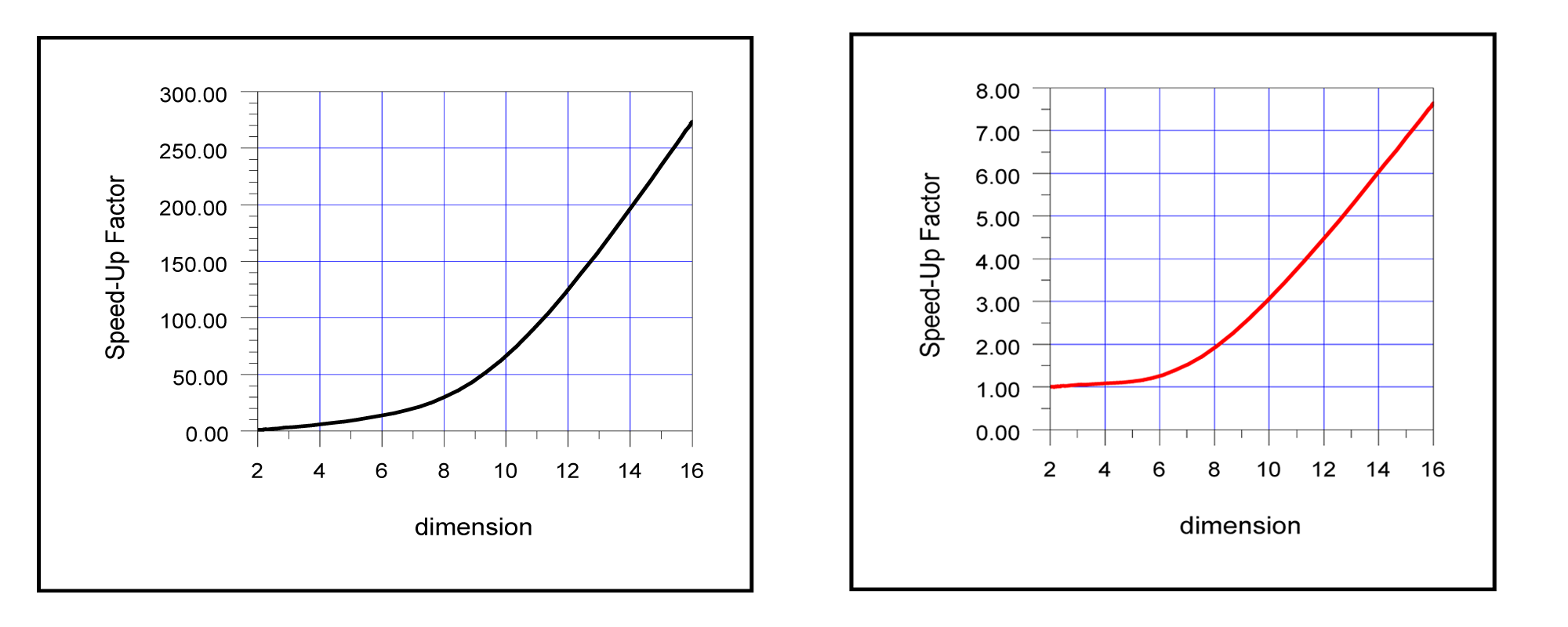 x-tree